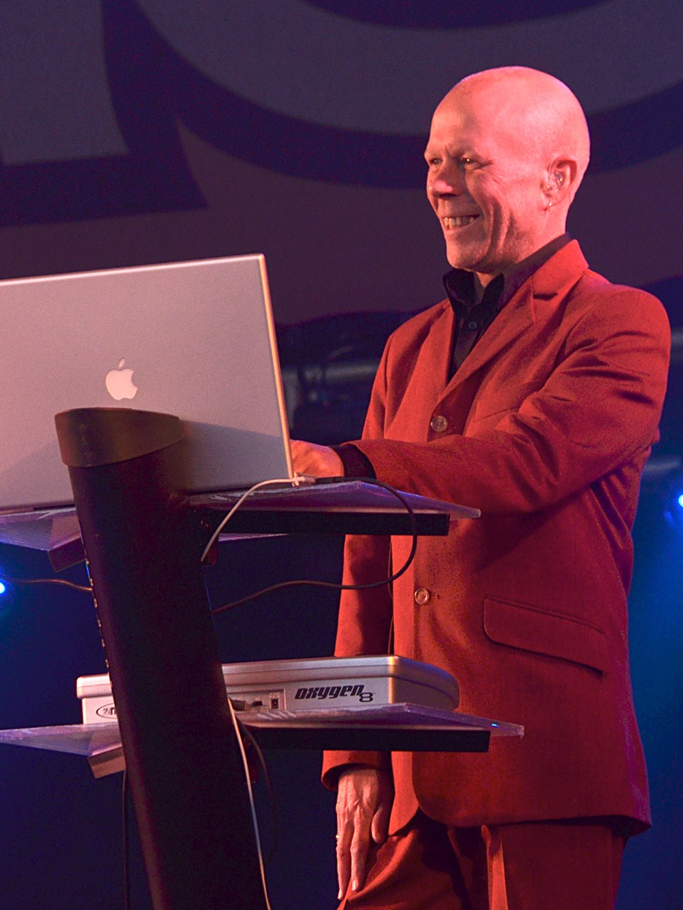 Erasure performed at Delamere Forest (near Chester), England, UK on 1 July 2011. Erasure were supported by the four-piece Foreign Office. Erasure were on form, they kicked off with "Hideaway", and just sang hit after hit, "Oh L'Amour", "Sometimes", "Victim of Love", "Love to Hate You", "Breathe", "Knocking on your Door", "Chains of Love", "Ship of Fools" and many more.